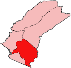 Map of Grand Cape Mount County, Liberia showing Garwula District; created with the GIMP. Made by User:Acntx.